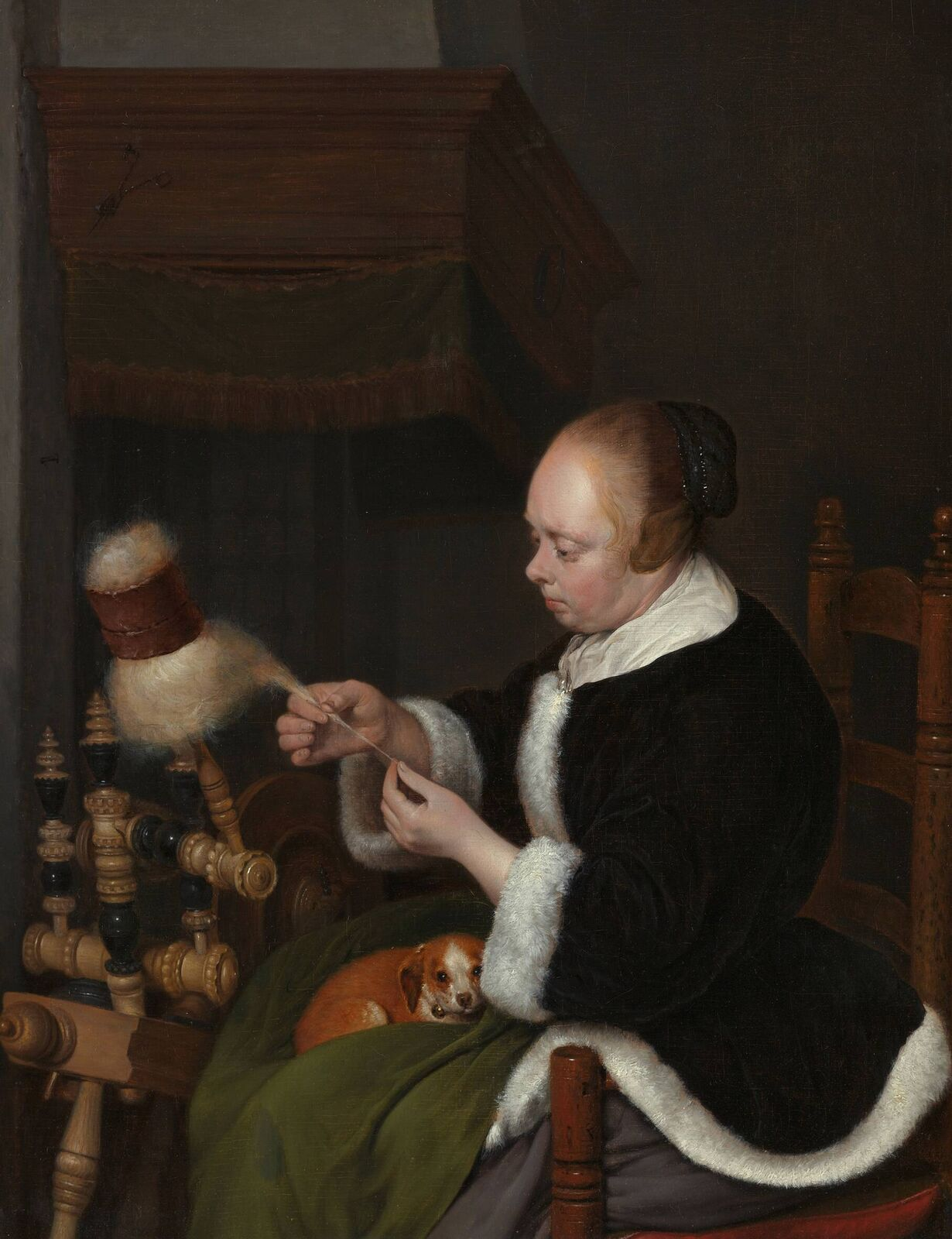 Pendant of File:Mother Combing the Hair of Her Child 1652-3 Gerard ter Borch.jpg.